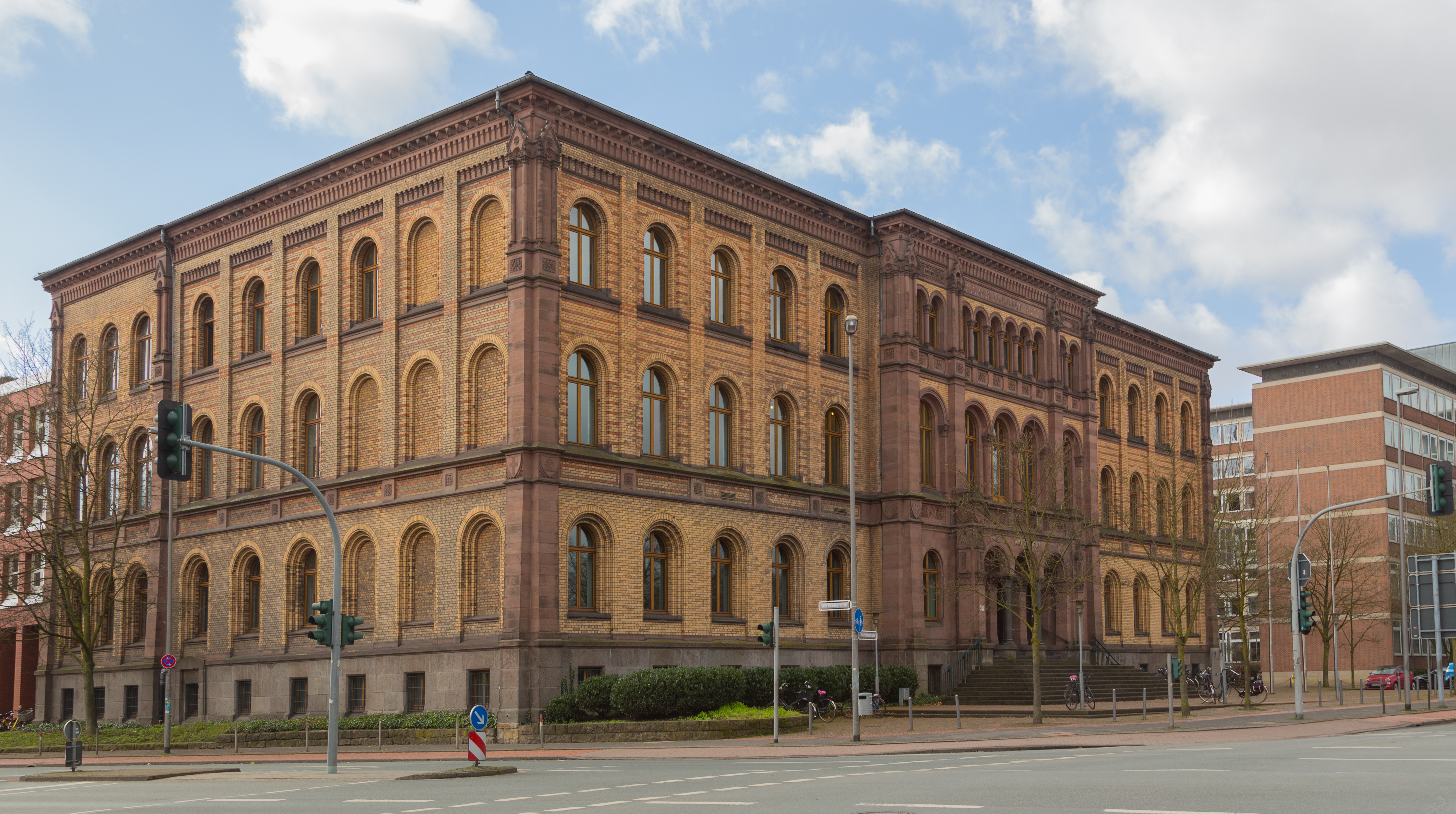 Amtsgericht (Local Court) in Münster, North Rhine-Westphalia, Germany, Gerichtsstraße 2